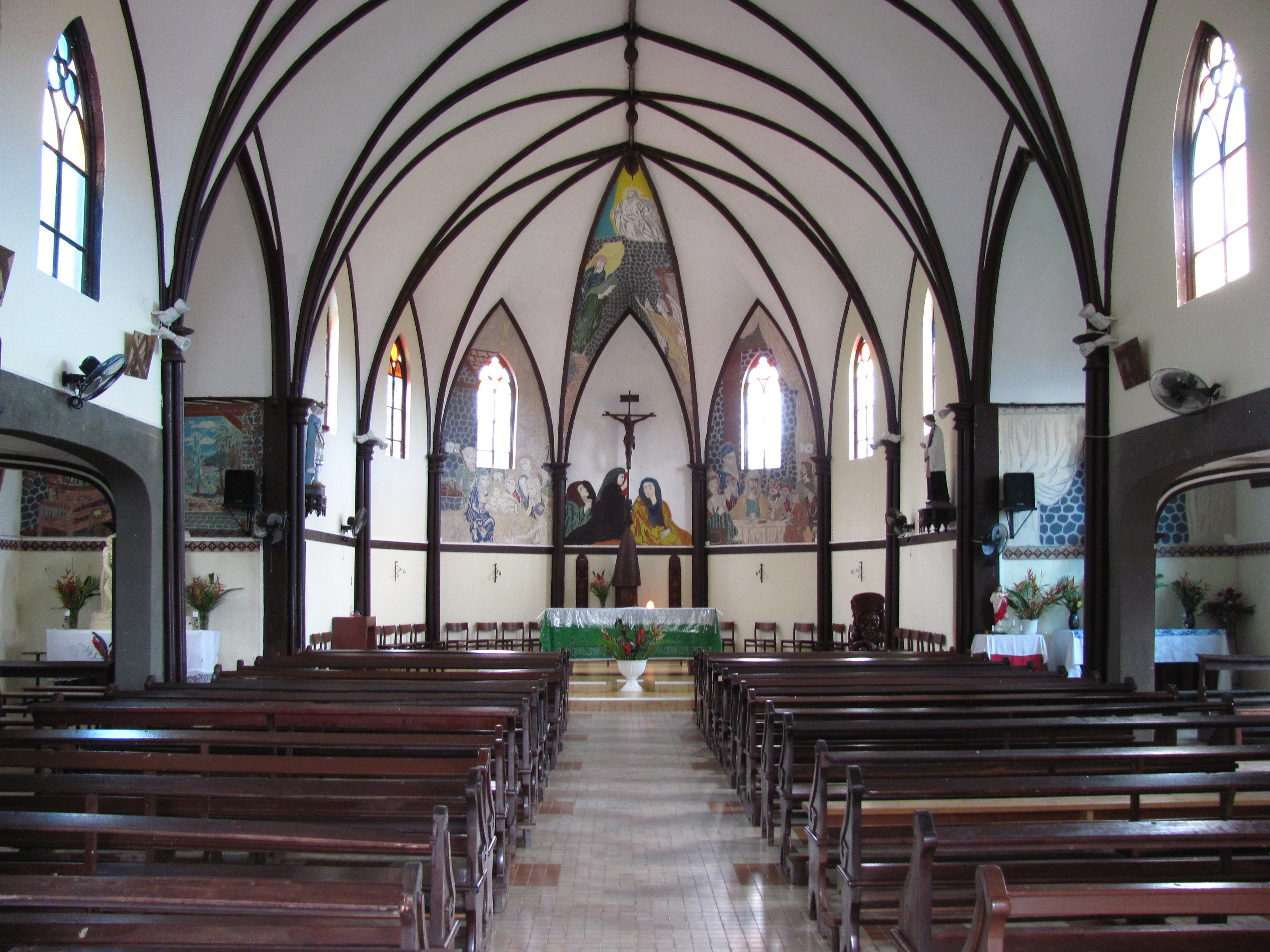 Catholic church, Saint Louis, Le Mont-Dore, New Caledonia